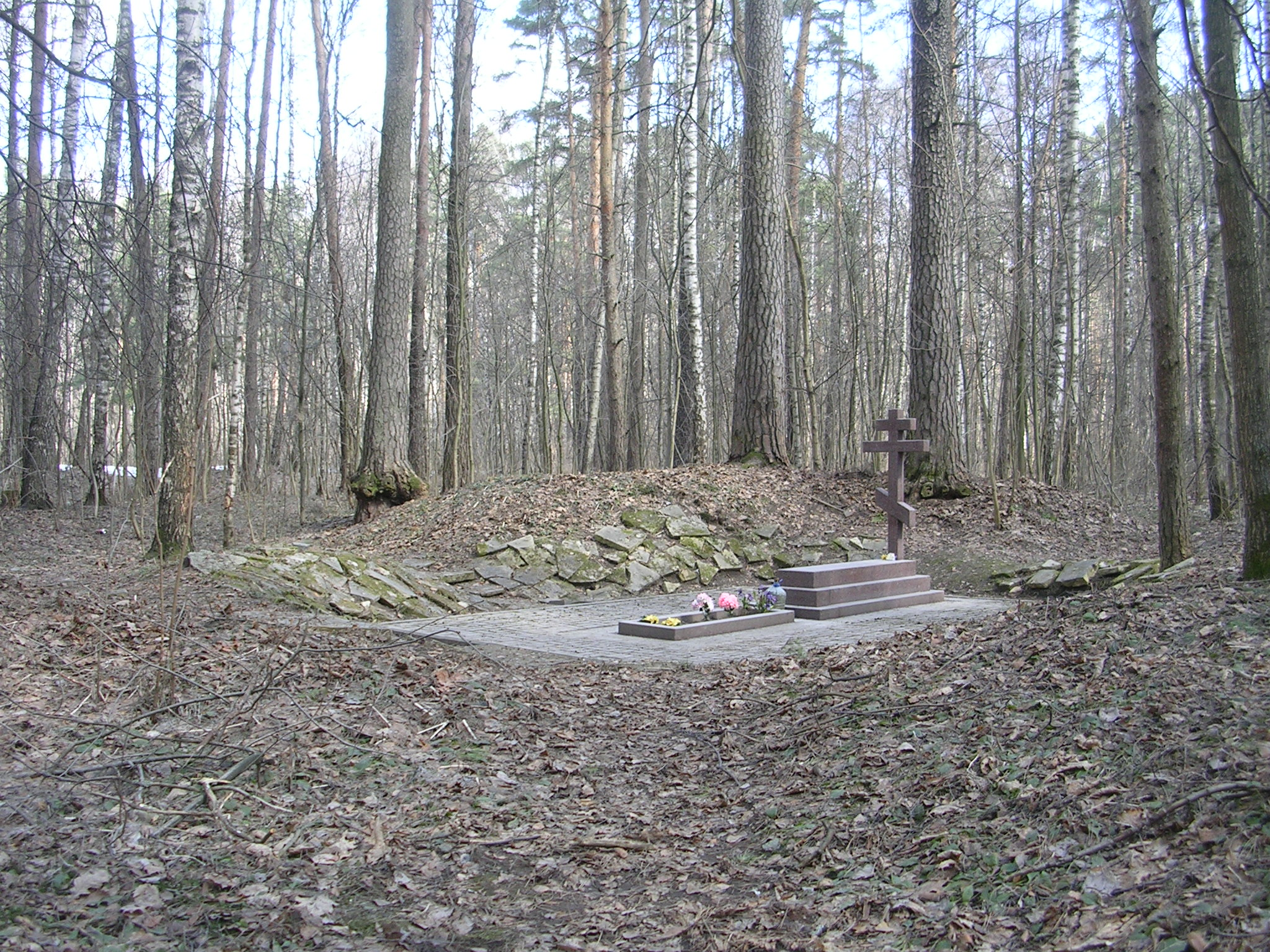 Newmartyr Konstantin Bogorodsky Cenotaph in Noginsk, Moscow region.